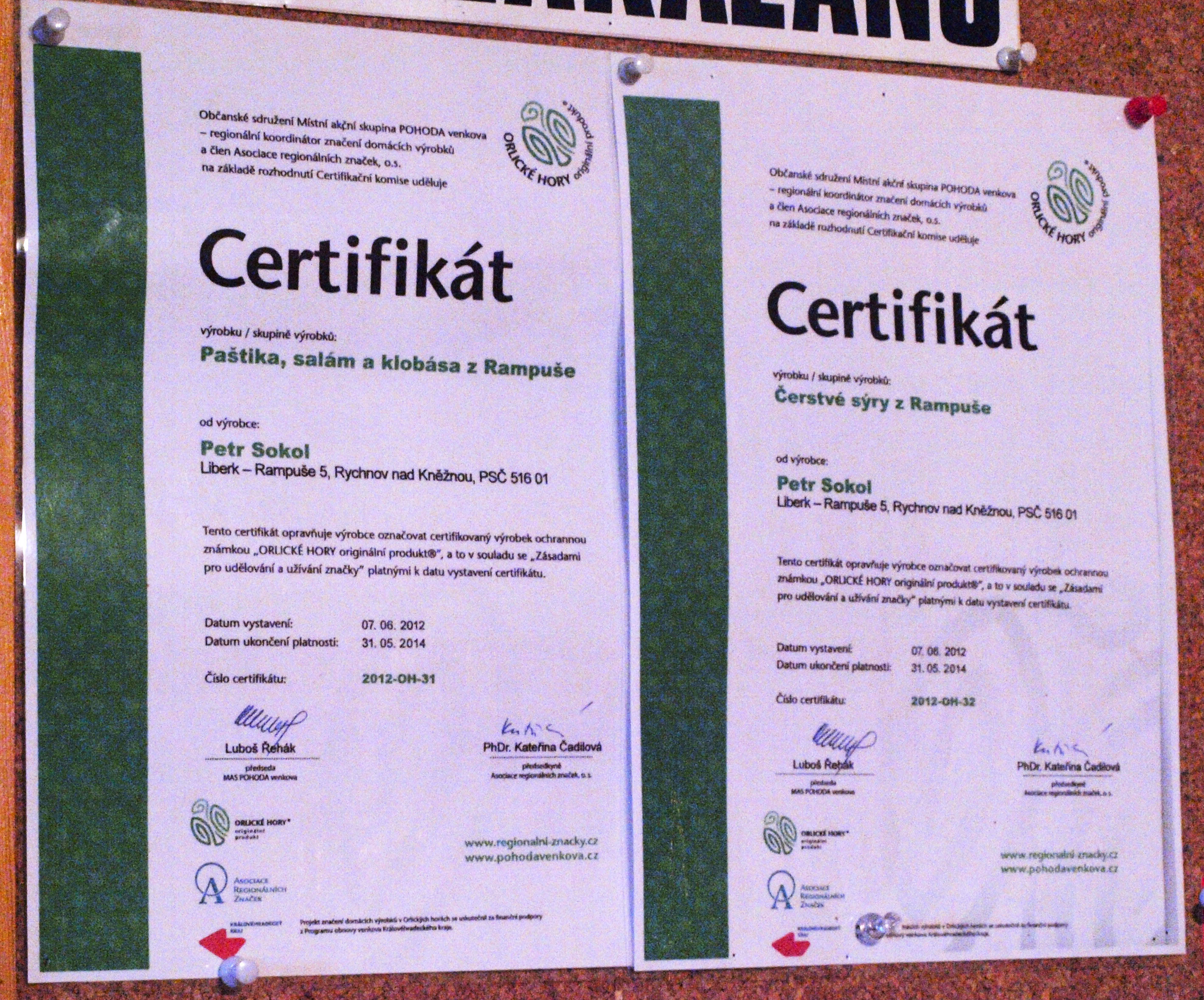 Orlické hory regional brand certificate